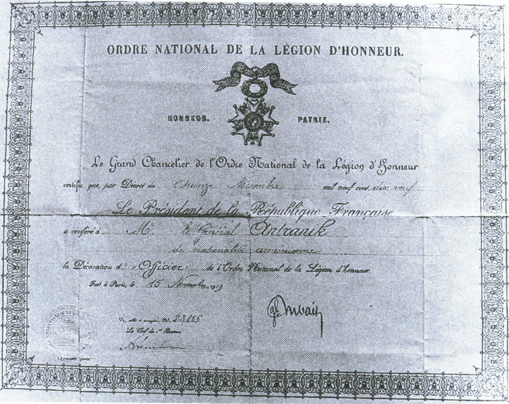 Andranik awarded by Legion of Honour Officer order